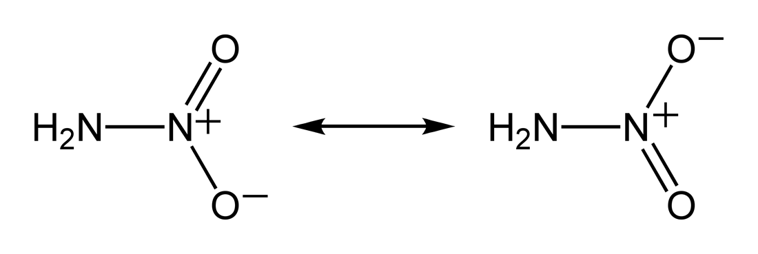 Resonance structures of nitramide, H2NNO2.